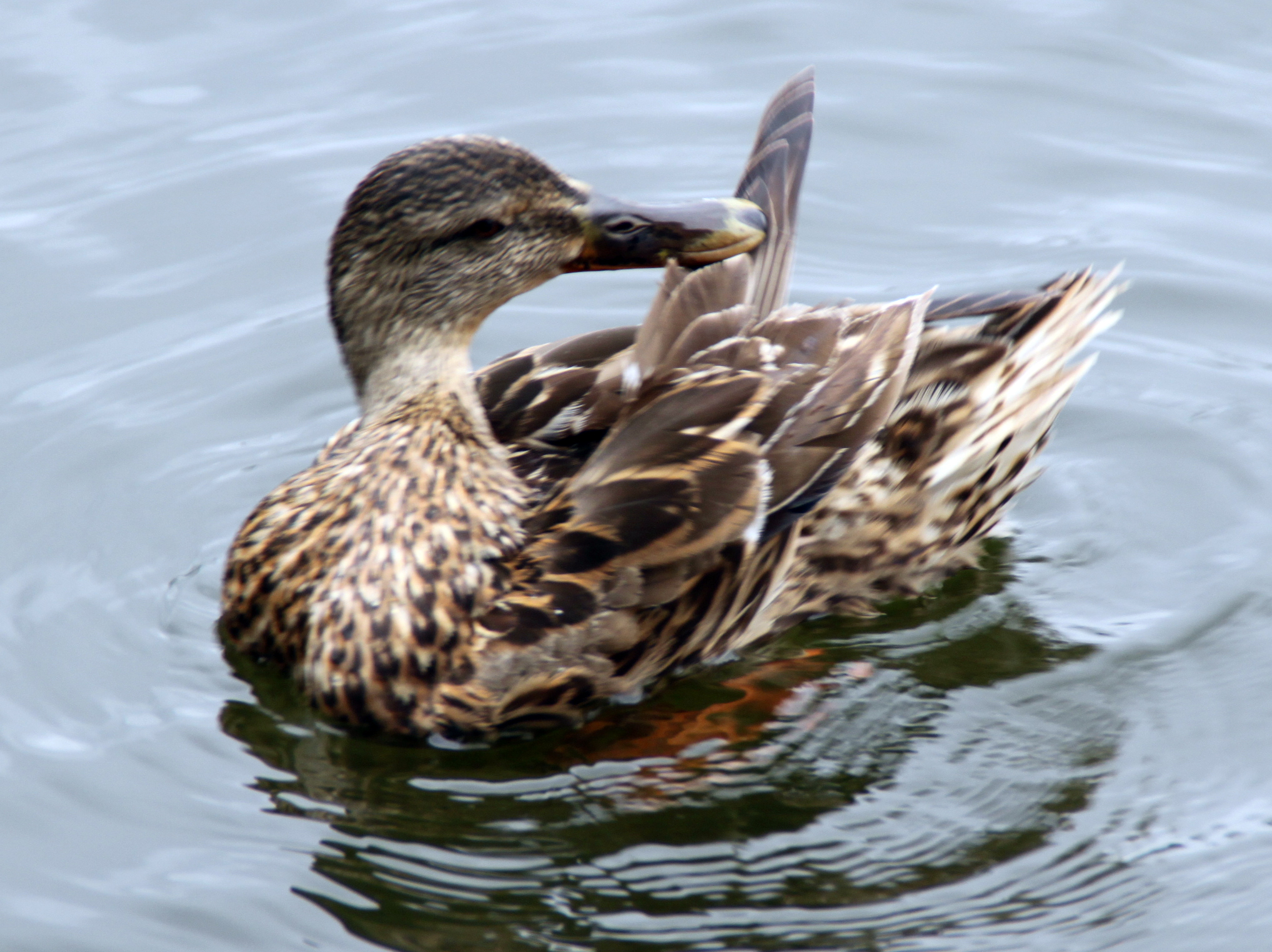 A female mallard duck (Anas platyrhynchos) cleaning it's feathers, Schermützelsee, Buckow, Märkische Schweiz, Germany